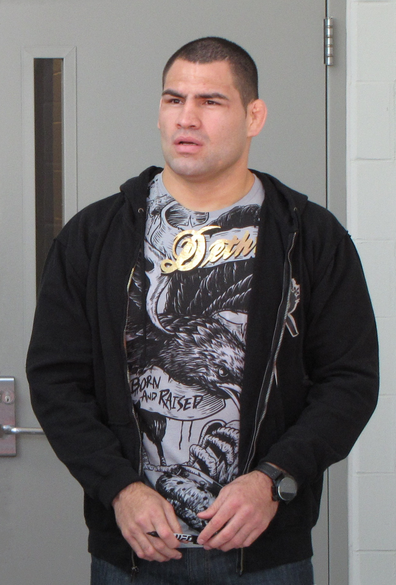 Cain Velasquez at an autograph signing in March 2010.